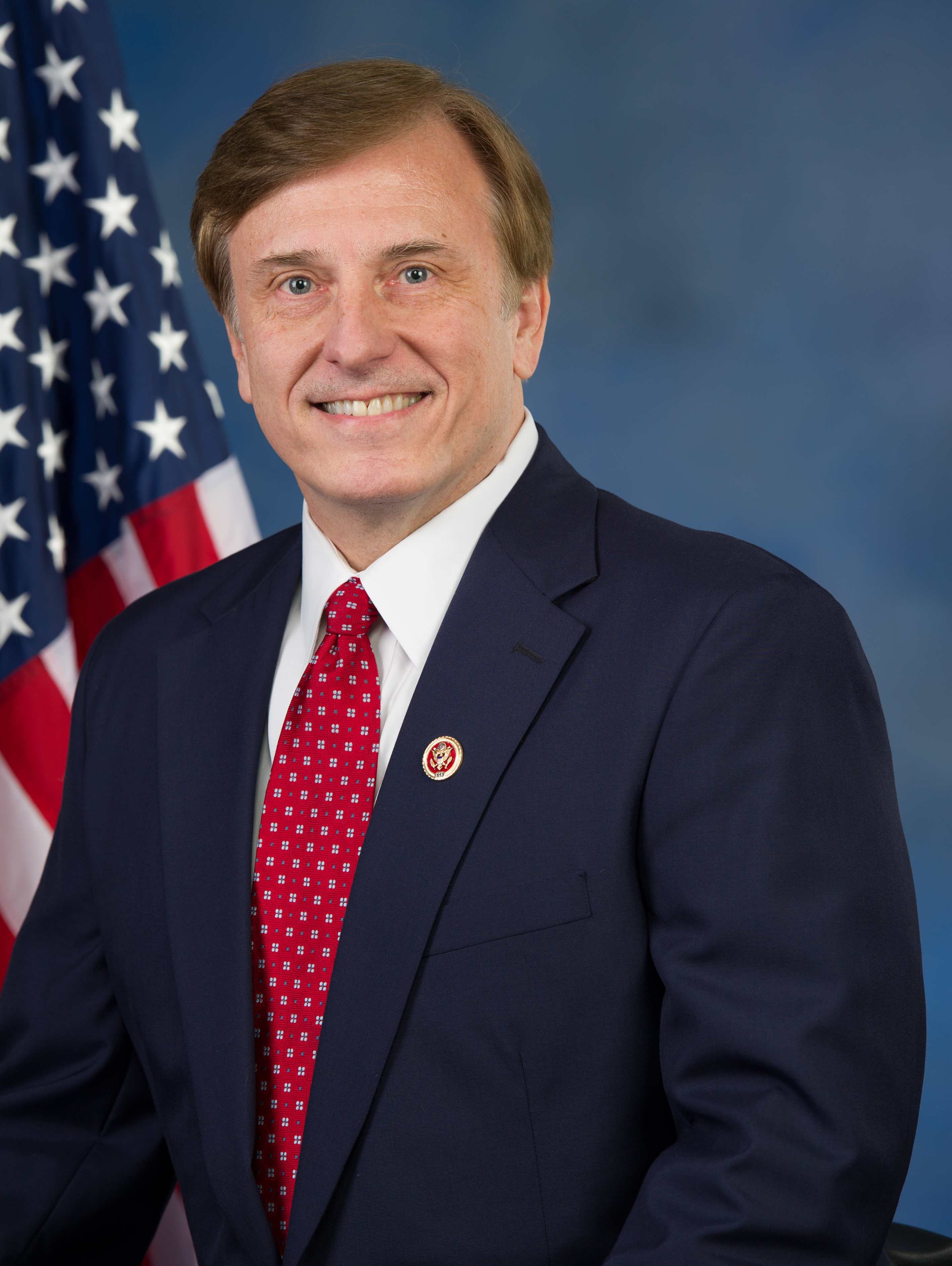 Official portrait of Congressman John Flemming.